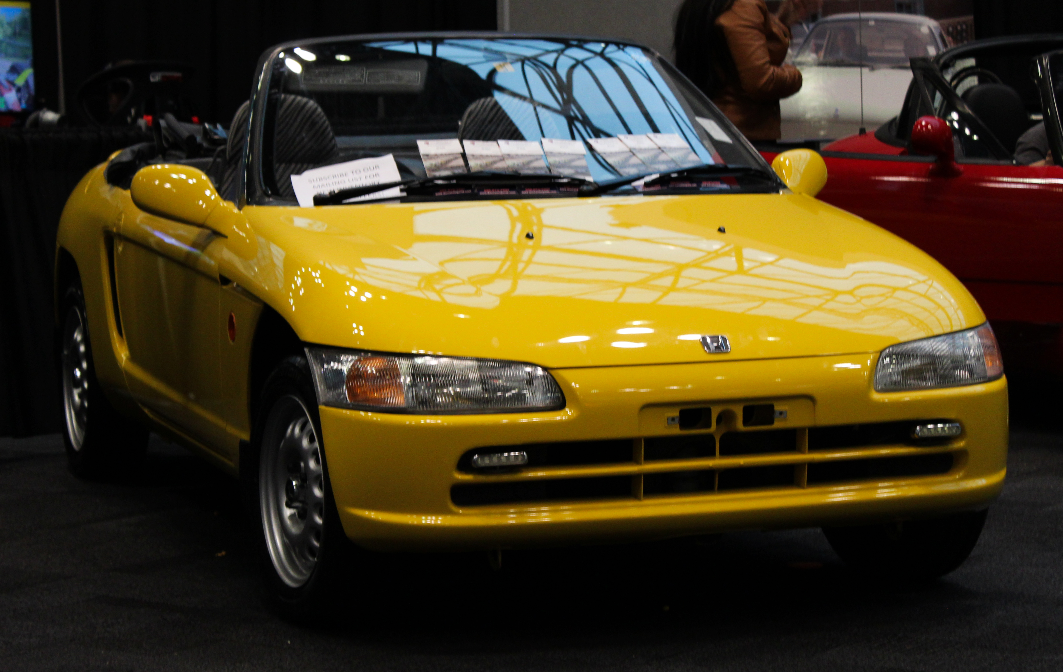 A 1993 Honda Beat convertible photographed during the 2019 New York International Auto Show, in Hudson Yards, Manhattan, NYC. Imported by Duncan Imports, 33,000- miles